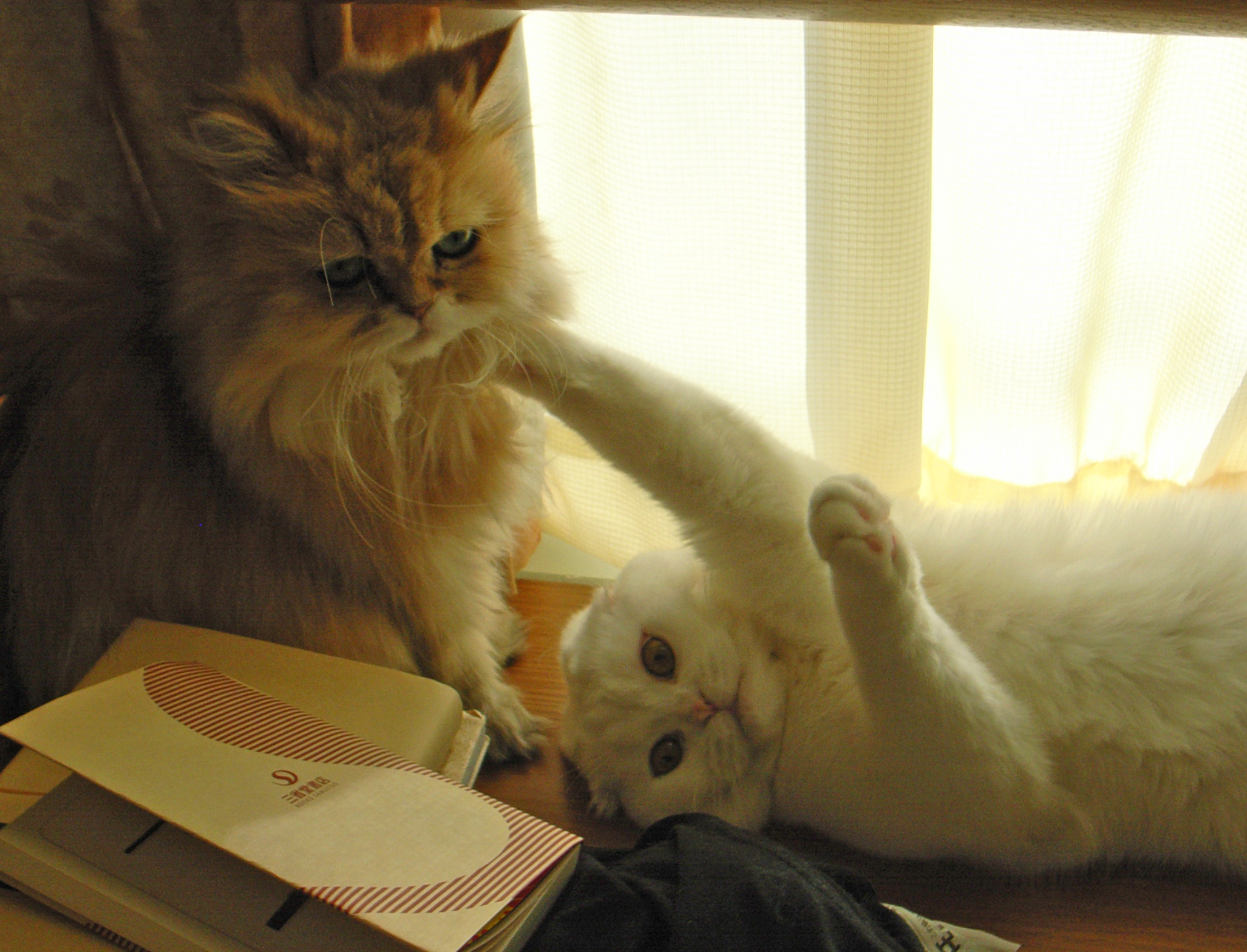 Left : A Chinchilla Golden cat, named Ahnin. Right : A Scottish Fold cat, named Kimi-kun. From Japan